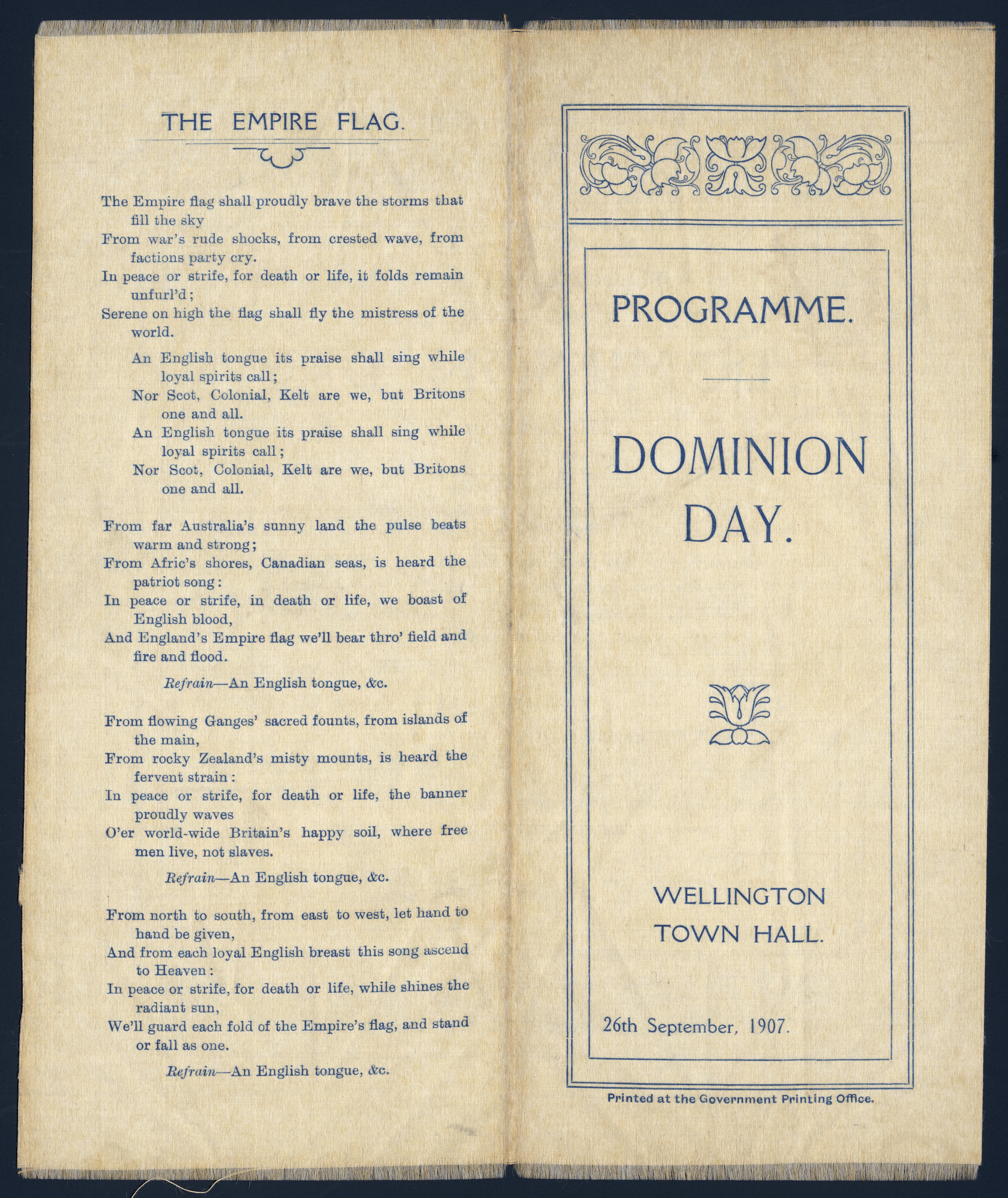 Front cover shows title words, with a decorative border at the top. Back reproduces a song "The Empire flag". Quantity: 1 colour art print(s) on cover of silk programme.. Physical Description: Letterpress on silk, 212 x 180 mm. Dominion Day. Wellington Town Hall, 26th September 1907. Programme. [Cover of silk programme].. Dominion Day. Wellington Town Hall, 26th September 1907. Programme. [Silk programme]. Printed at the Government Printing Office.. Ref: Eph-A-HISTORY-Dominion-Day-1907-02-cover. Alexander Turnbull Library, Wellington, New Zealand.